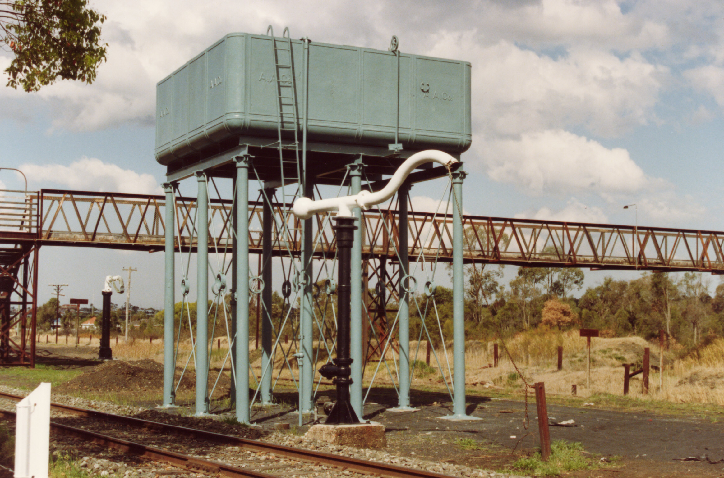 Weston water tank and water columns after sandblasting & painting. Note the A.A.Co. cast into the end panels. Weston station footbridge in background.